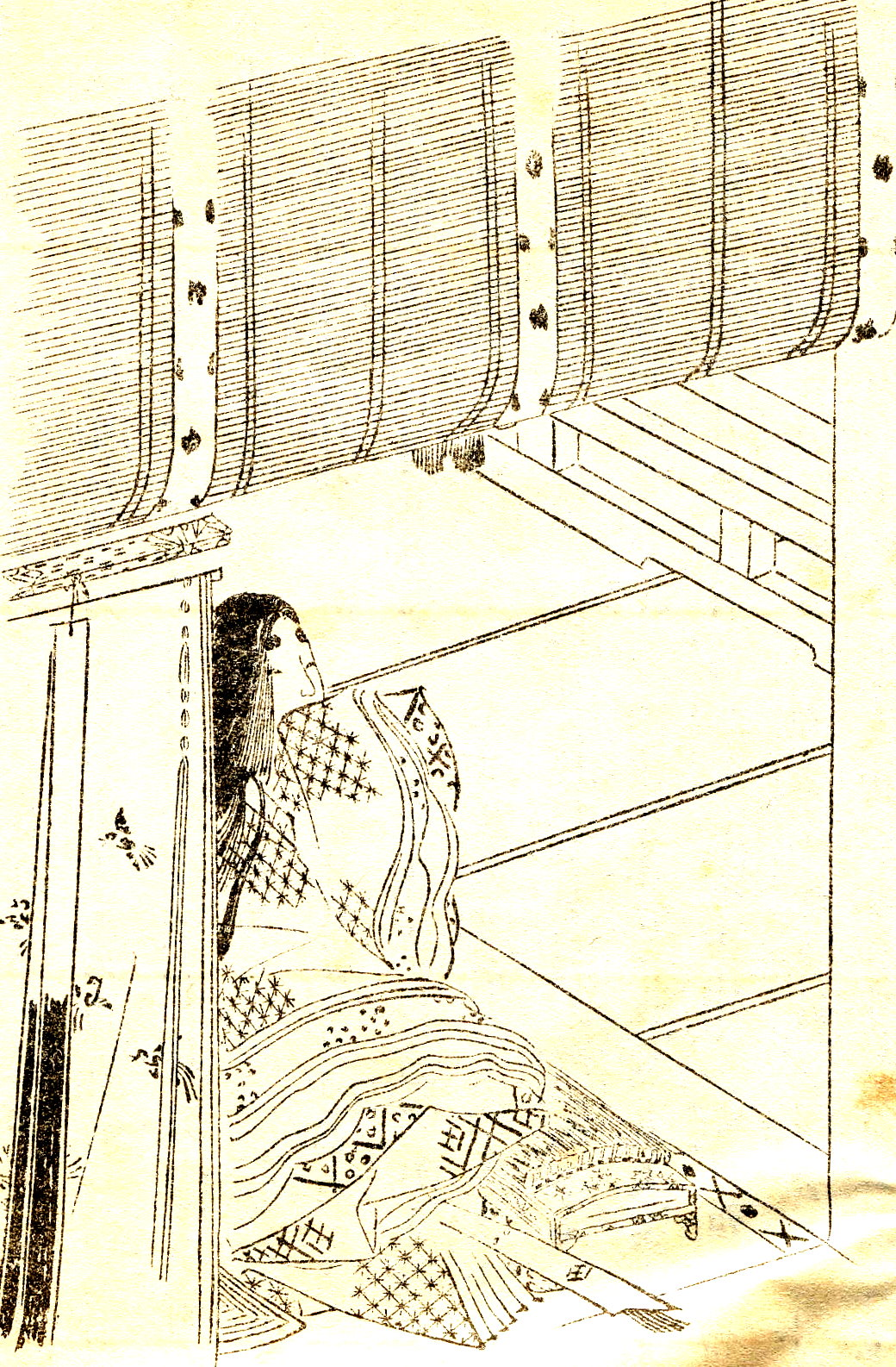 koutou no Naishi（勾当内侍）was a legendary woman of Japan in the 14th century.This picture was drawn by Kikuchi Yosai（菊池容斎） who was a painter in Japan.